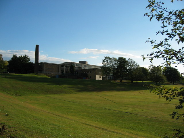 Newfield School. The West building